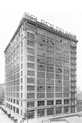 Belber-Larking Building in Philadelphia